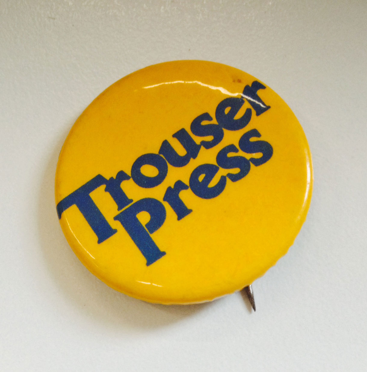 Trouser Press badge (button), circa 1982. The Barry Hall Archive.